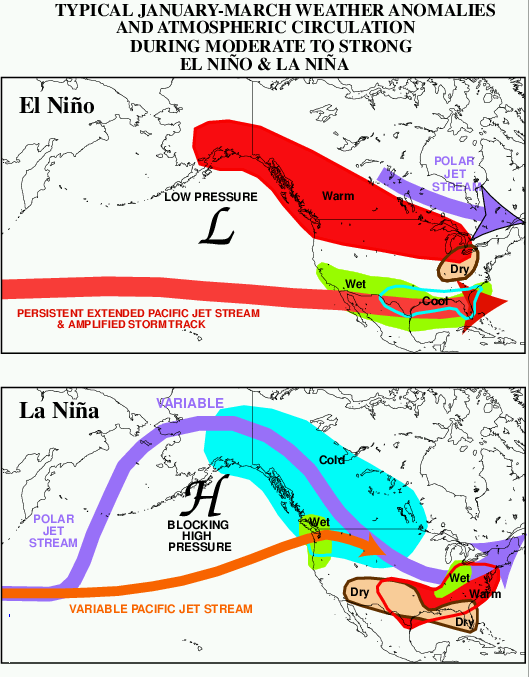 El Niño effects upon North American weather and atmospheric circulation.